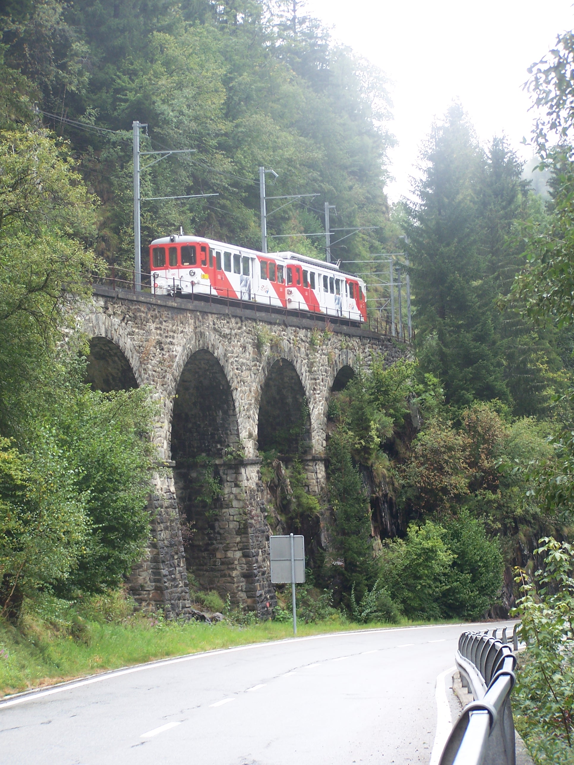 railway "Chemin de fer Martigny–Châtelard (MC)" in Switzerland and France; picture taken close to Finhaut, Switzerland